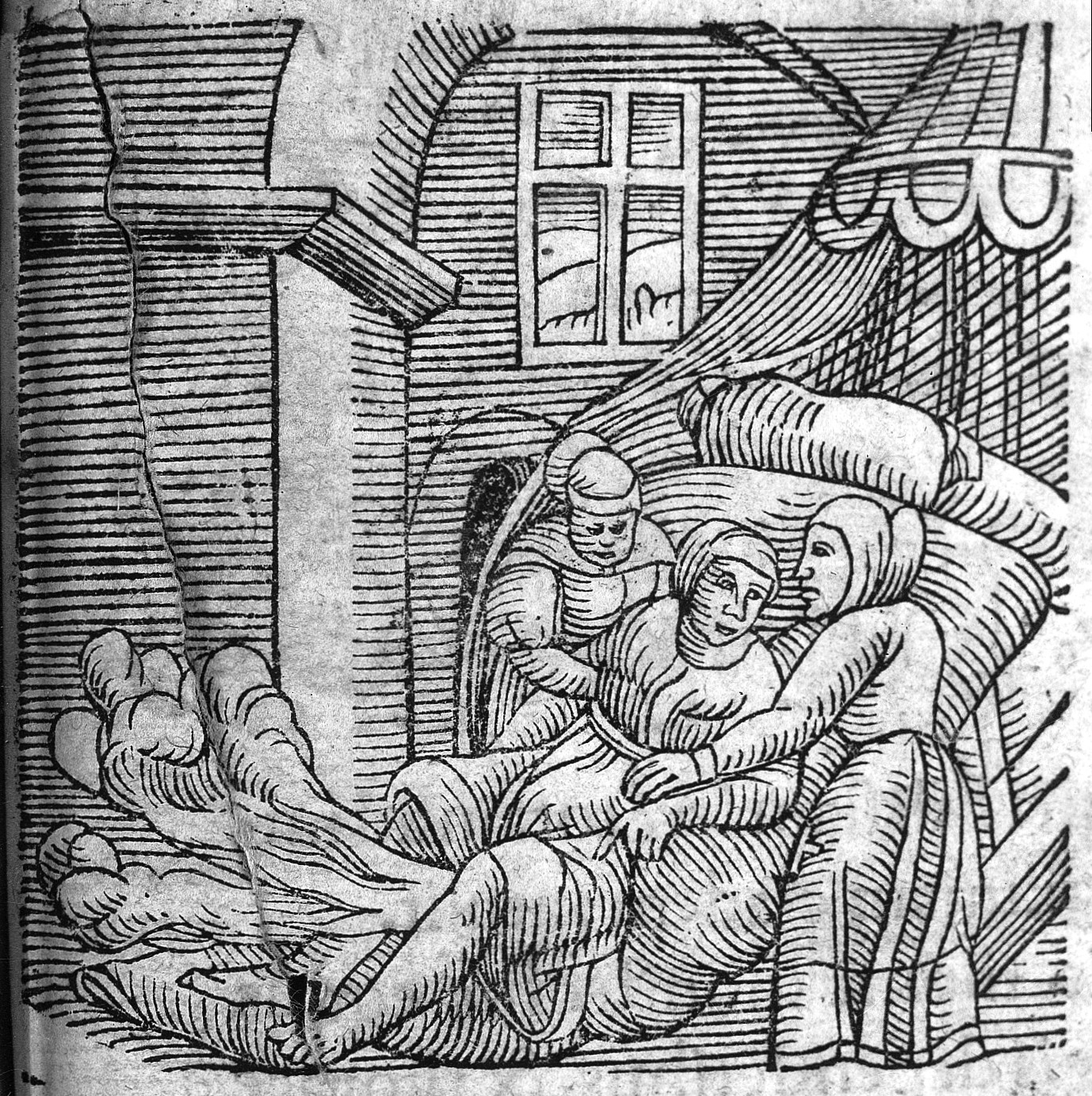 Illustration of man suffering from wind. Rare Books Keywords: Abnormalities